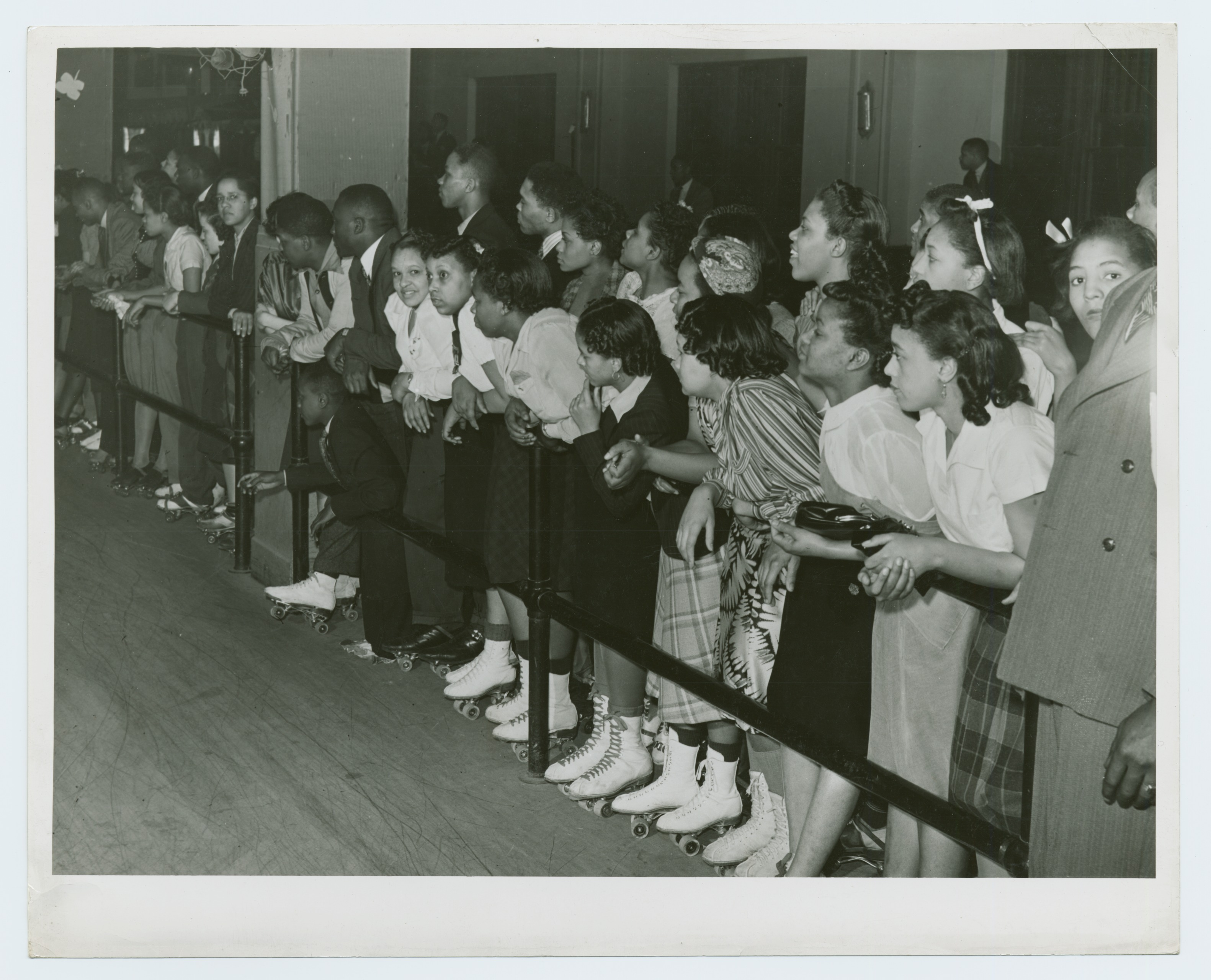 Universal Unique Identifier (UUID): a2b3df80-c612-012f-defc-58d385a7bc34